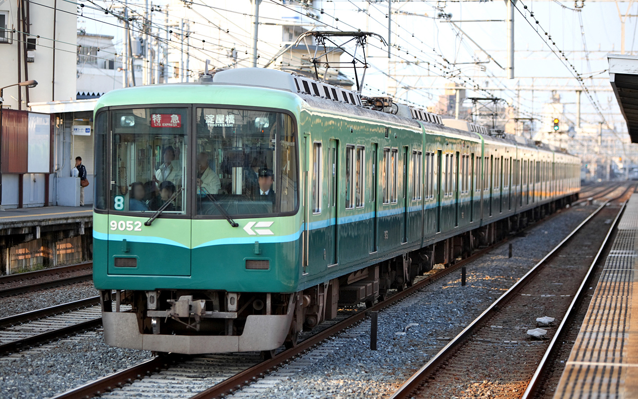 Keihan 9000 series 8-car EMU set 9002 in original livery